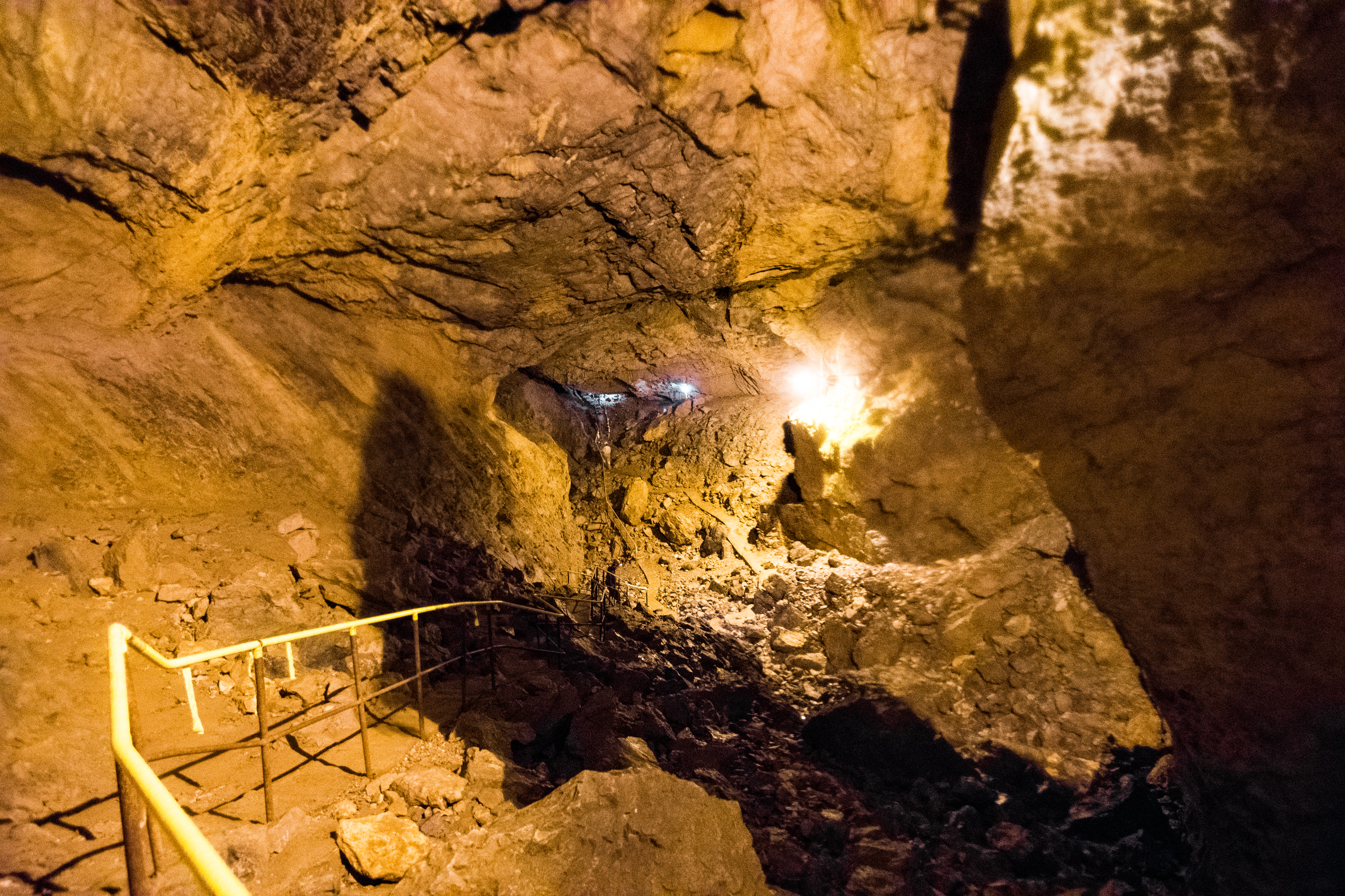 Oh-hiroma, the hall in show cave area in Kawachi no Kaza-ana("Kawachi Wind Cave").